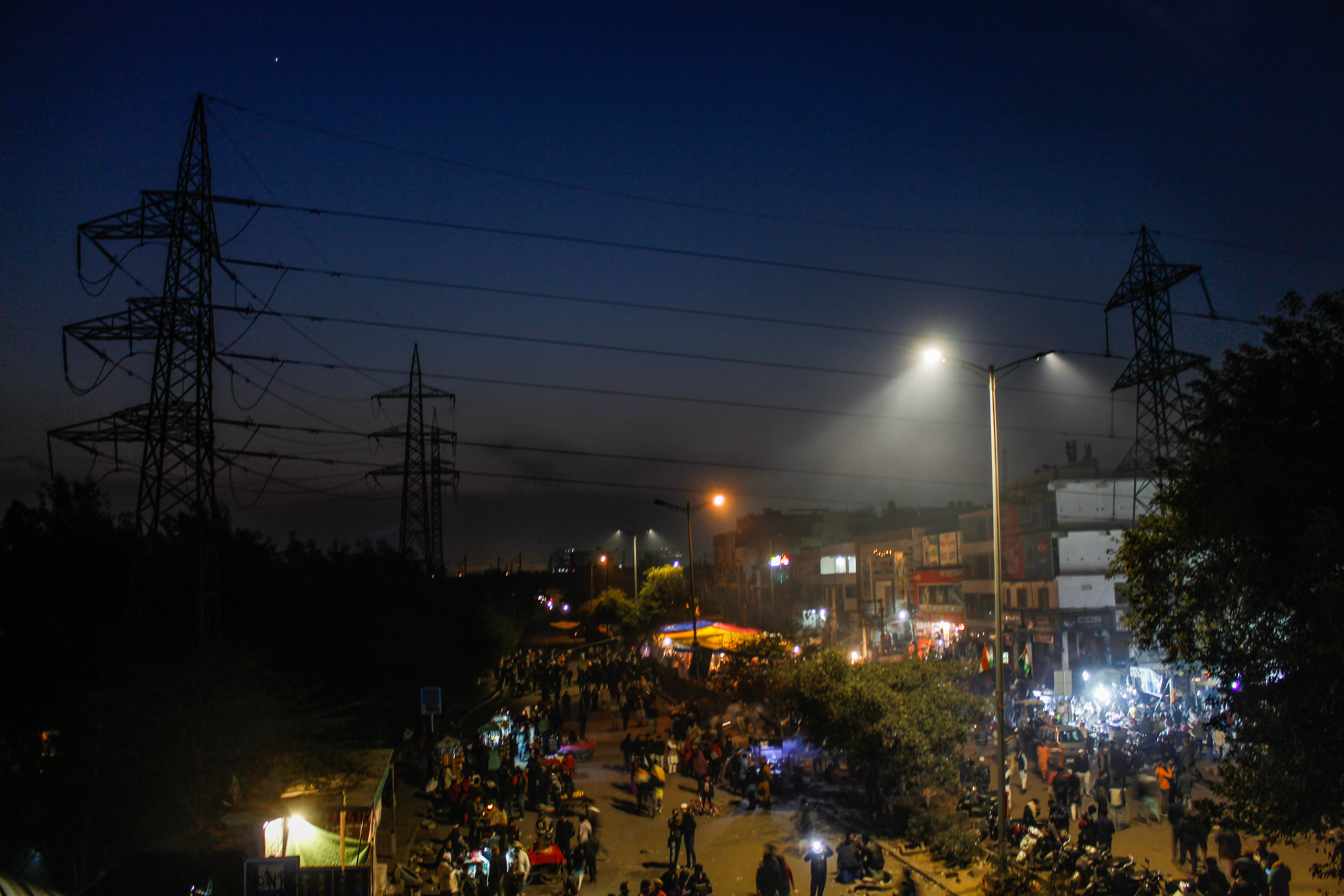 An aerial view of Shaheen Bagh protests. Shaheen Bagh protests are women led protests in India, against Citizenship Amendment Act and National Register of Citizens. These protests started on 15th December 2019.